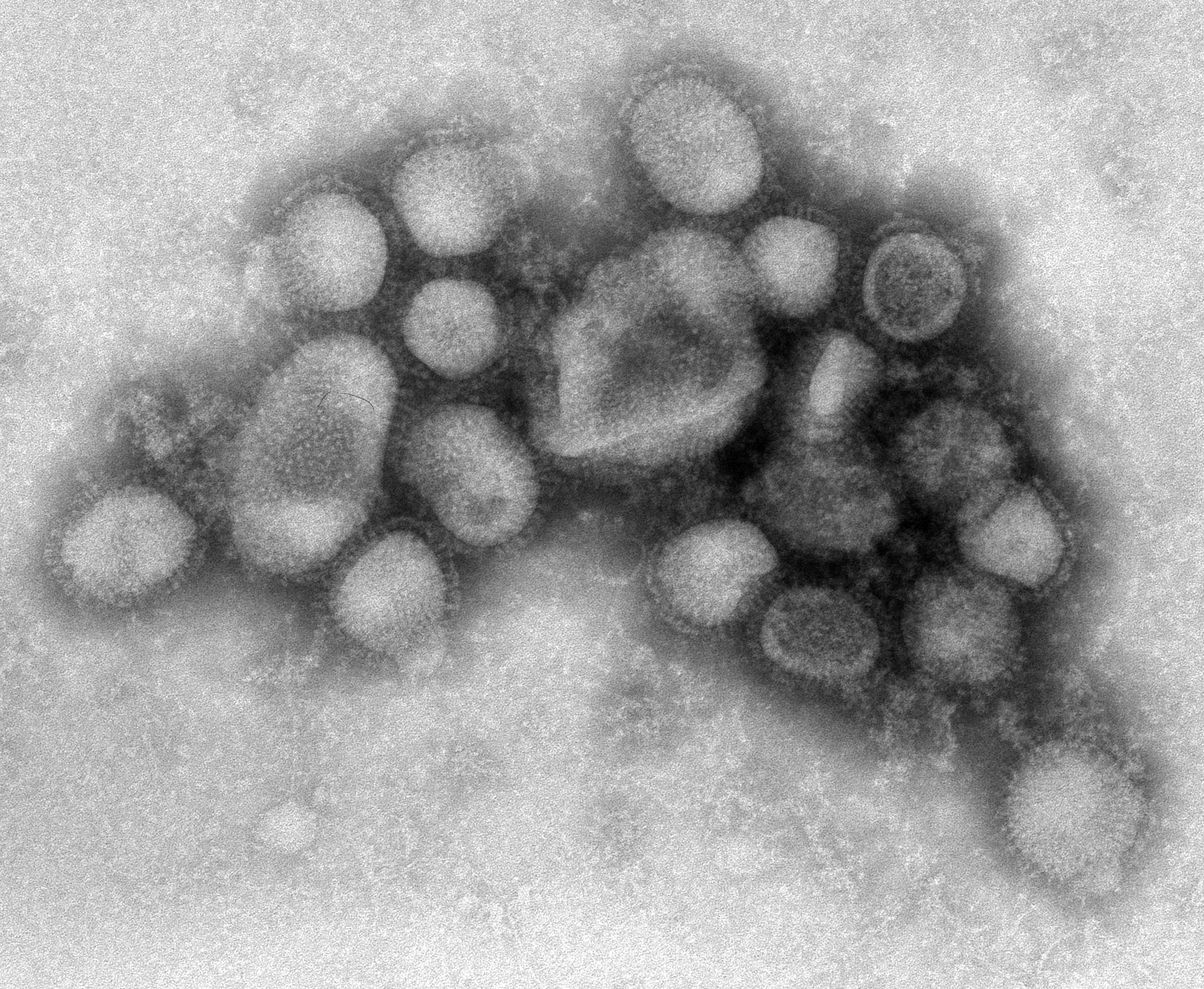 Negative stain EM image of the swine influenza A/CA/4/09